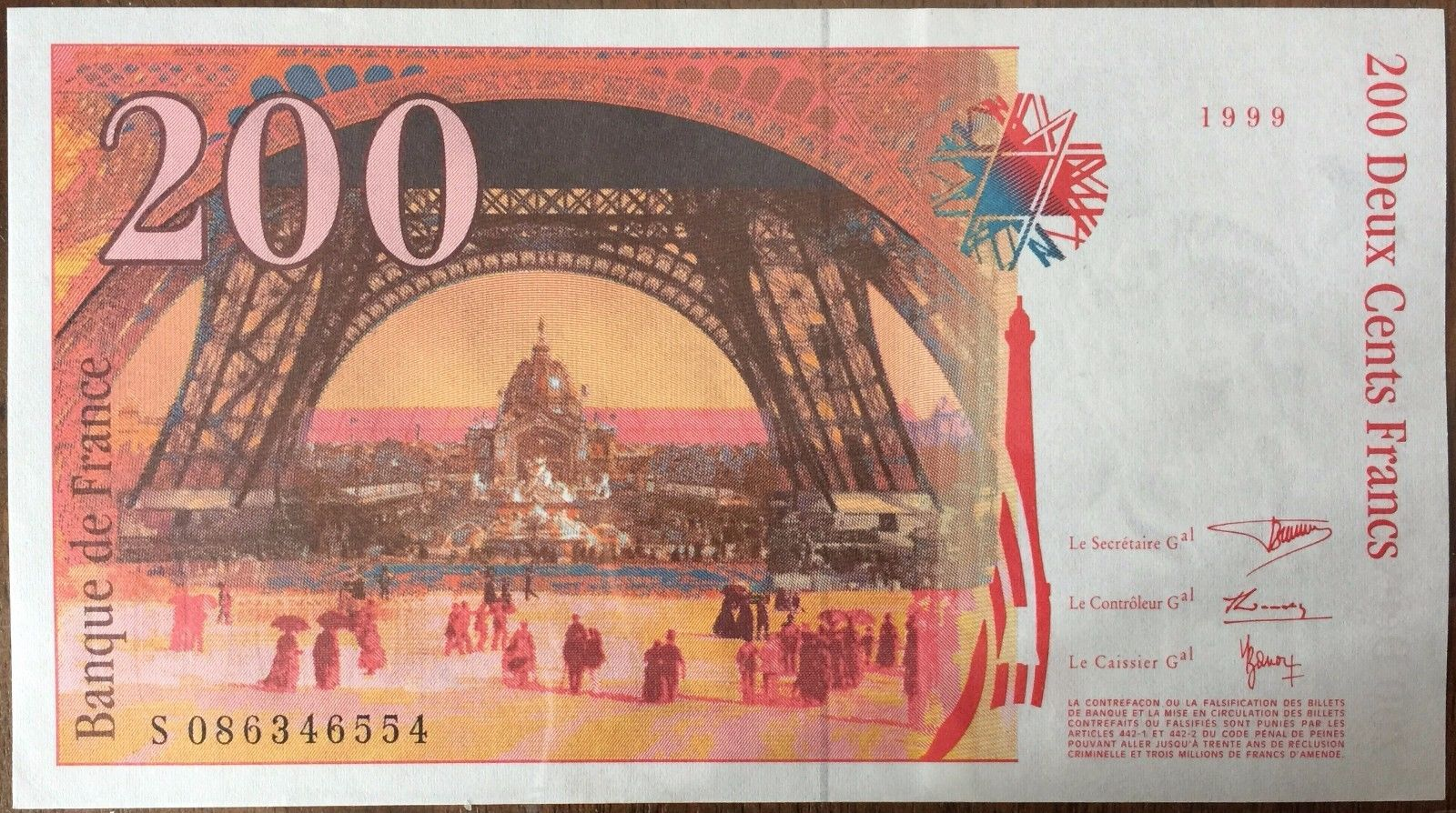 200 francs